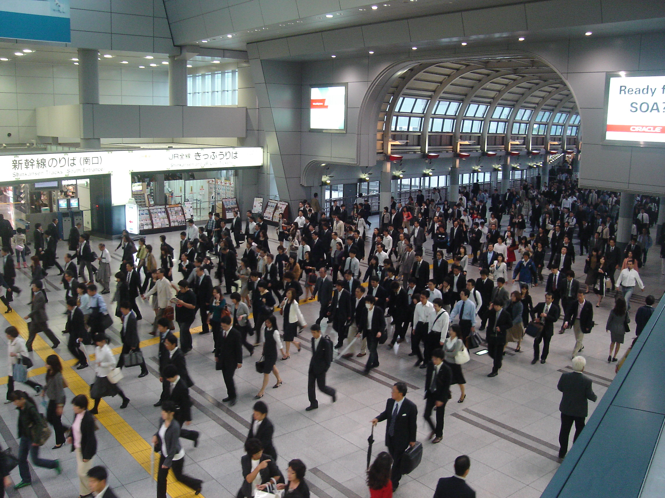 Commuters heading towards the Konan exit in Shinagawa station, Tokyo